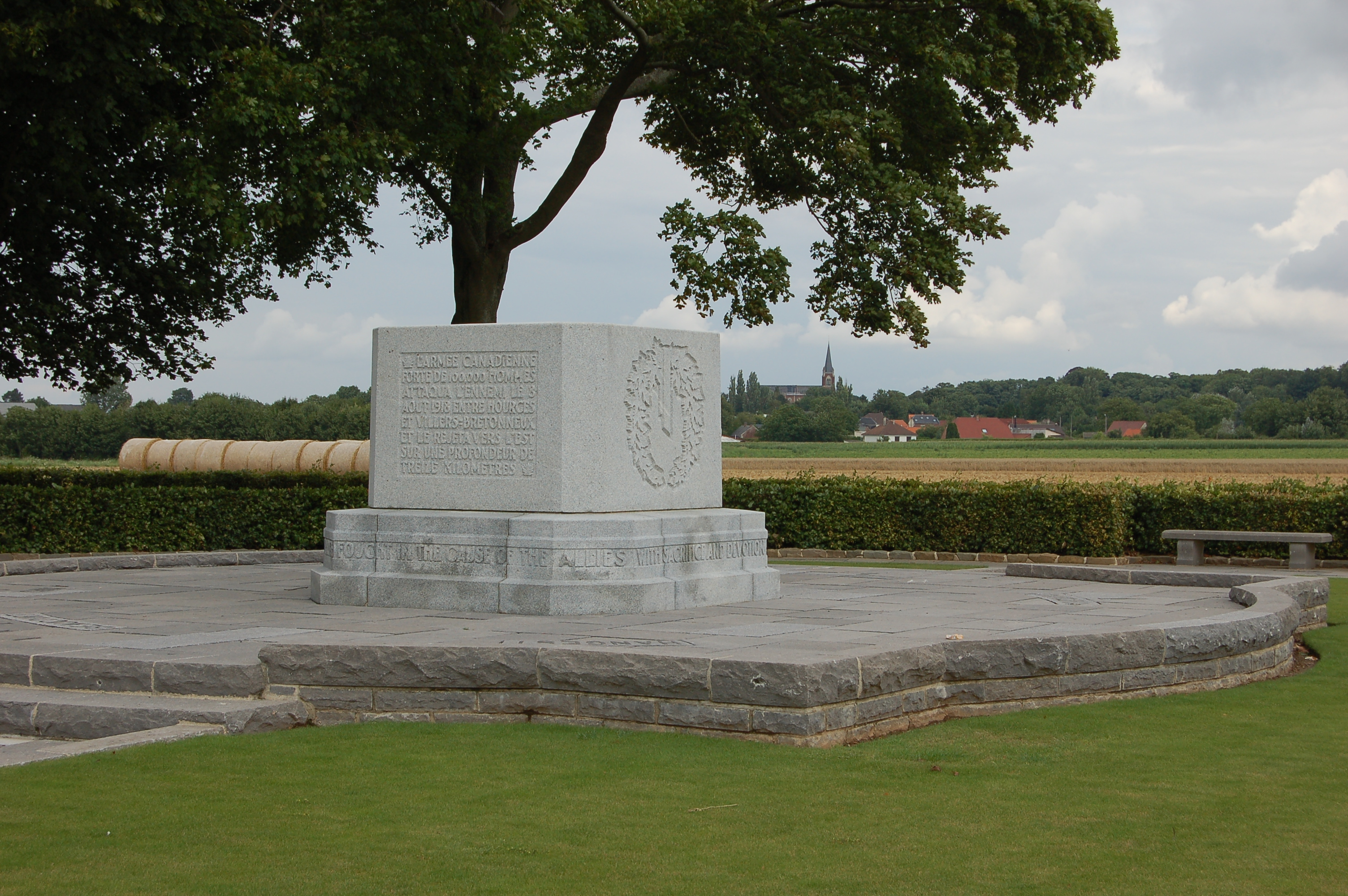 Canada's Battle of Amiens Memorial - the Le Quesnel Memorial